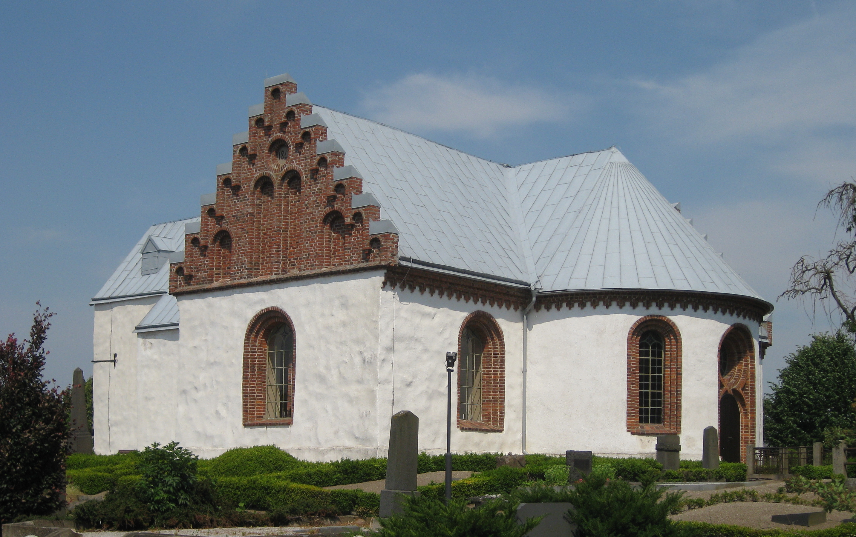 Västra Kärrstorp church, Skåne, Sweden